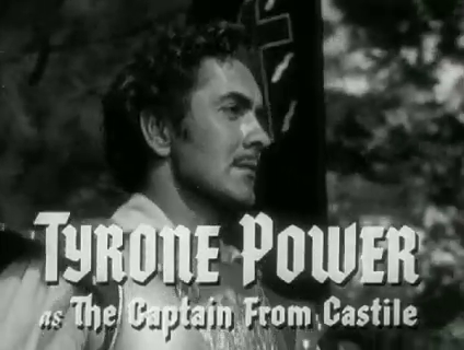 Tyrone Power Captain from Castile Henry King 1947